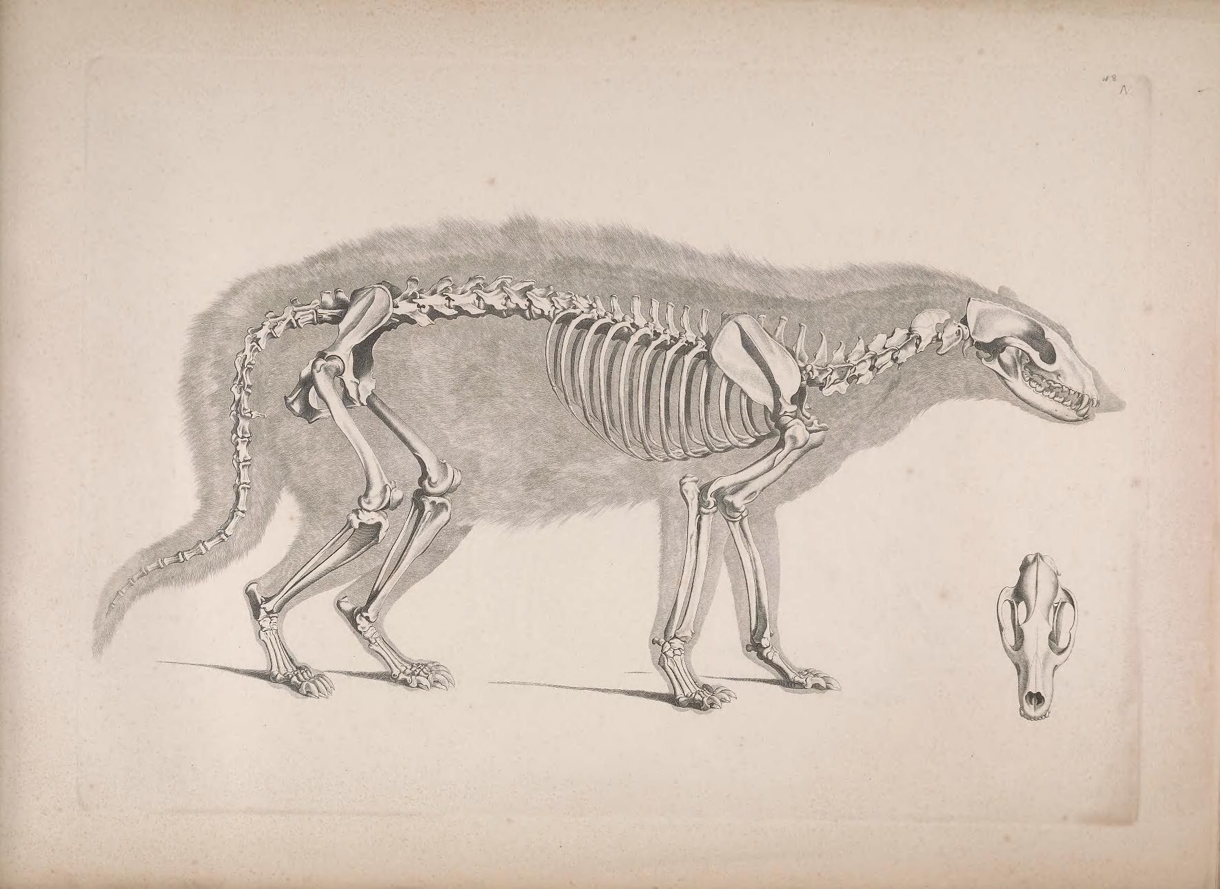 skeleton of African civet